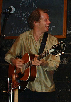 Suvi Aika, photographer, no copyright